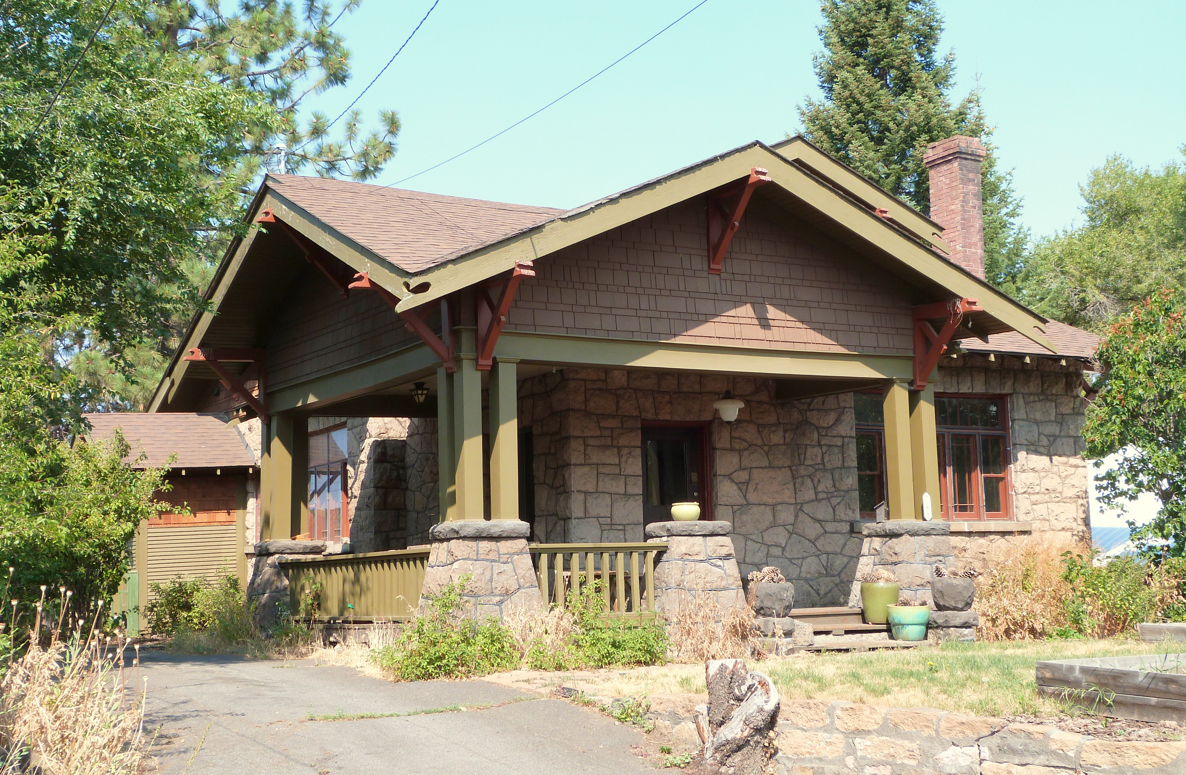 The historic Peter Byberg House (built 1916), located at 153 Northwest Jefferson Place in Bend, Oregon, United States, is listed on the US National Register of Historic Places.